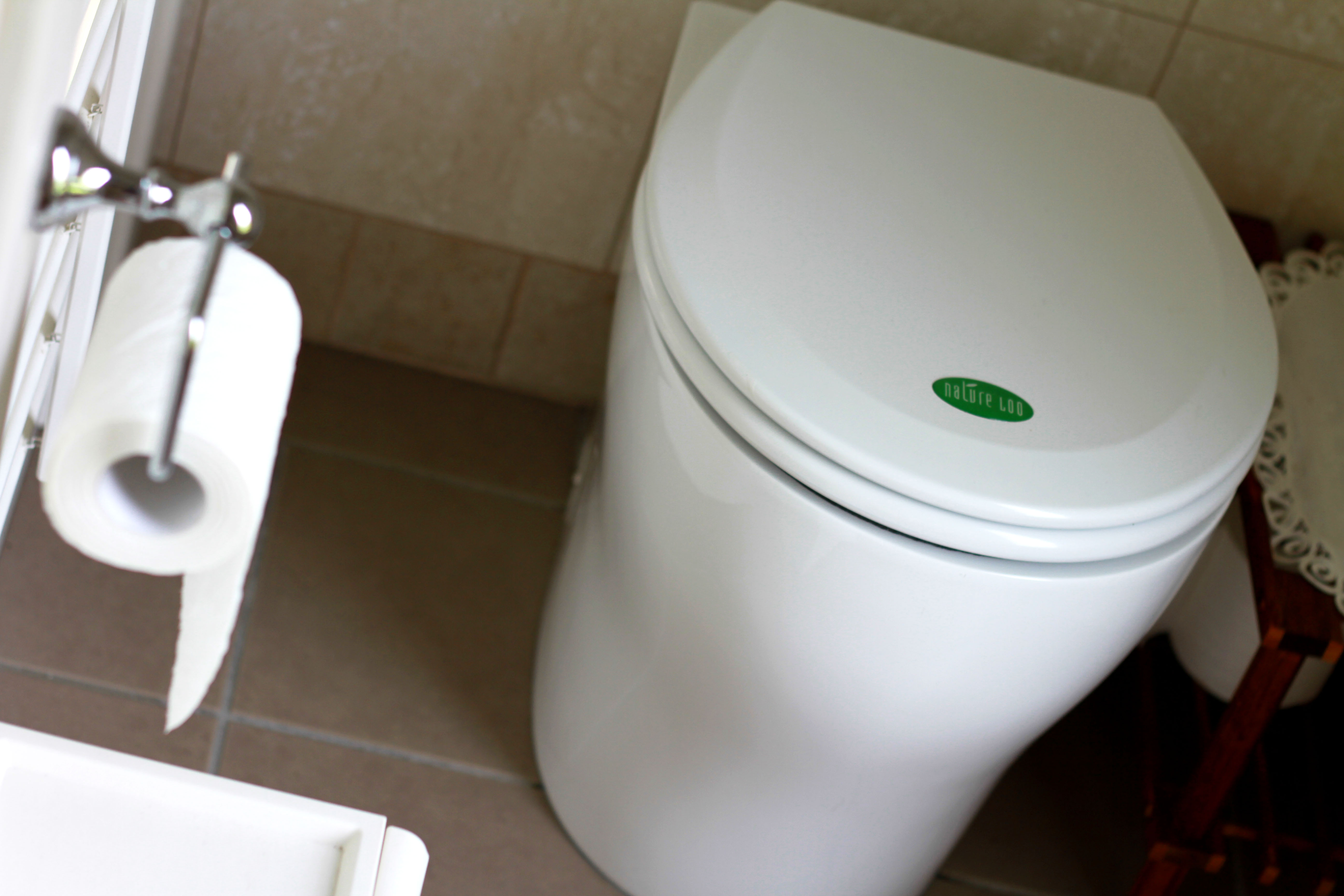 This is the pedestal for a split-system composting toilet where collection/treatment chambers are located below the bathroom floor. The pedestal is 100% waterless and is easier to clean than a flushing toilet pedestal